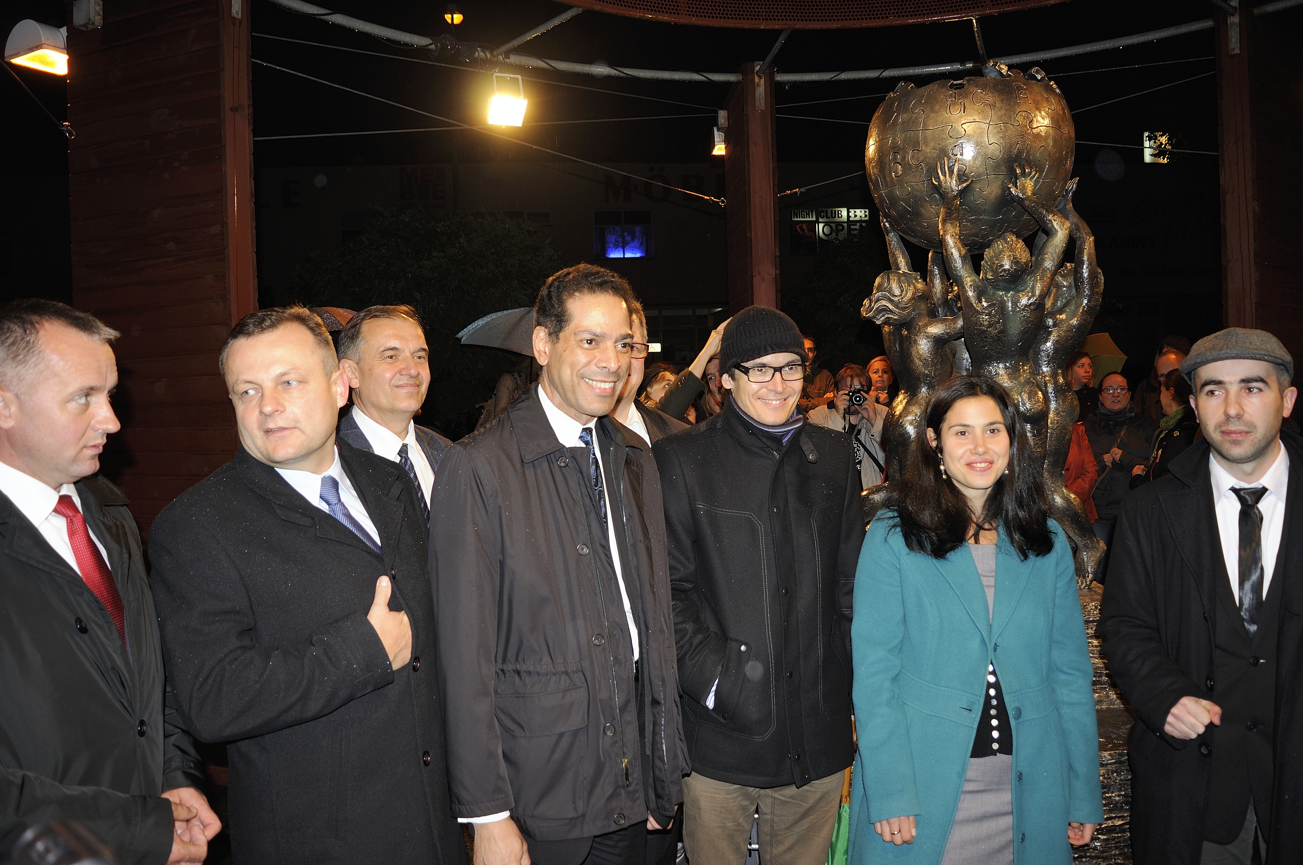 Celebration of the Wikipedia monument in Słubice. Unveiling.